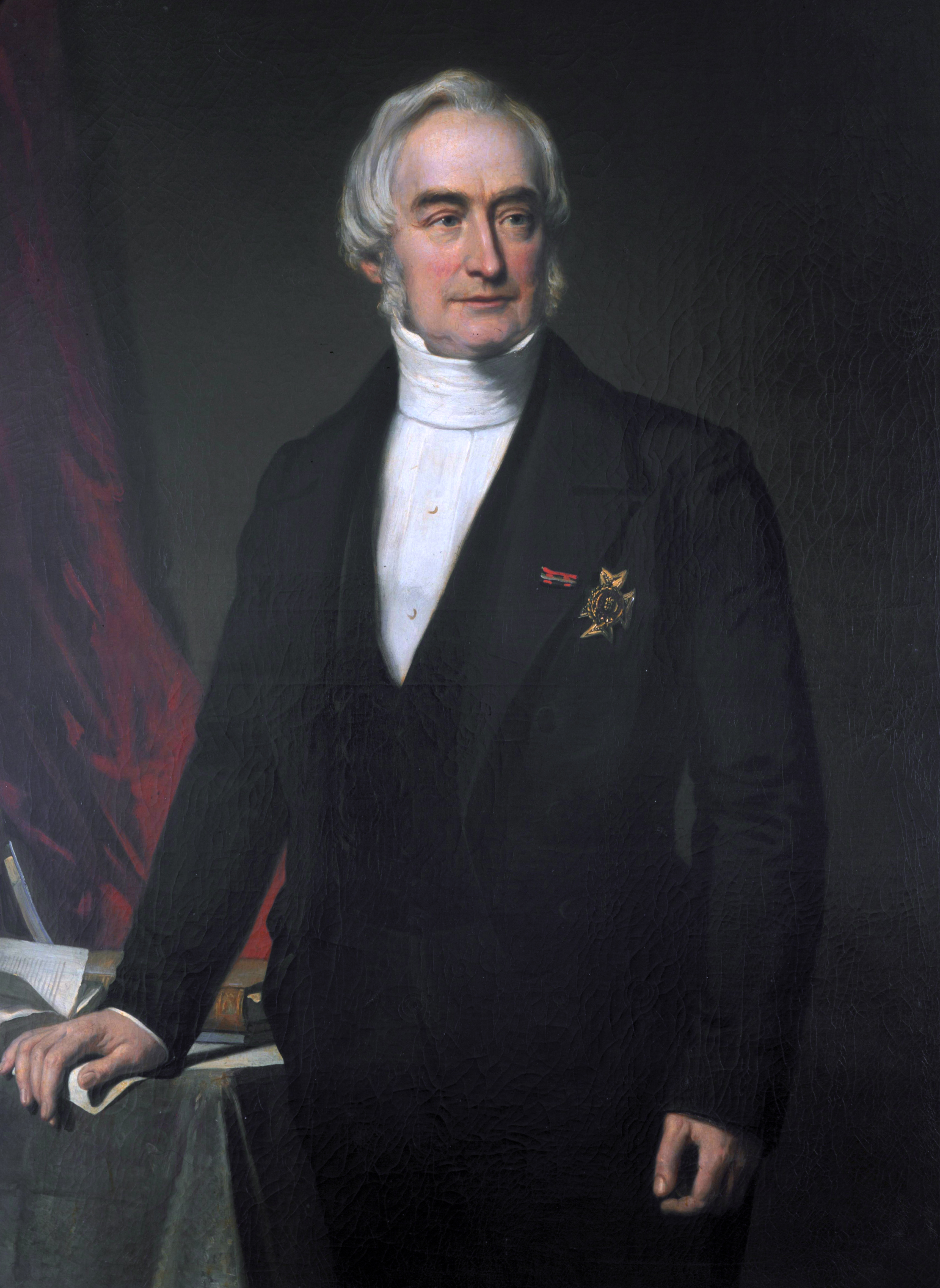 Johannes Bosscha (1797-1874) oil on canvas 137 x 104 cm 1857